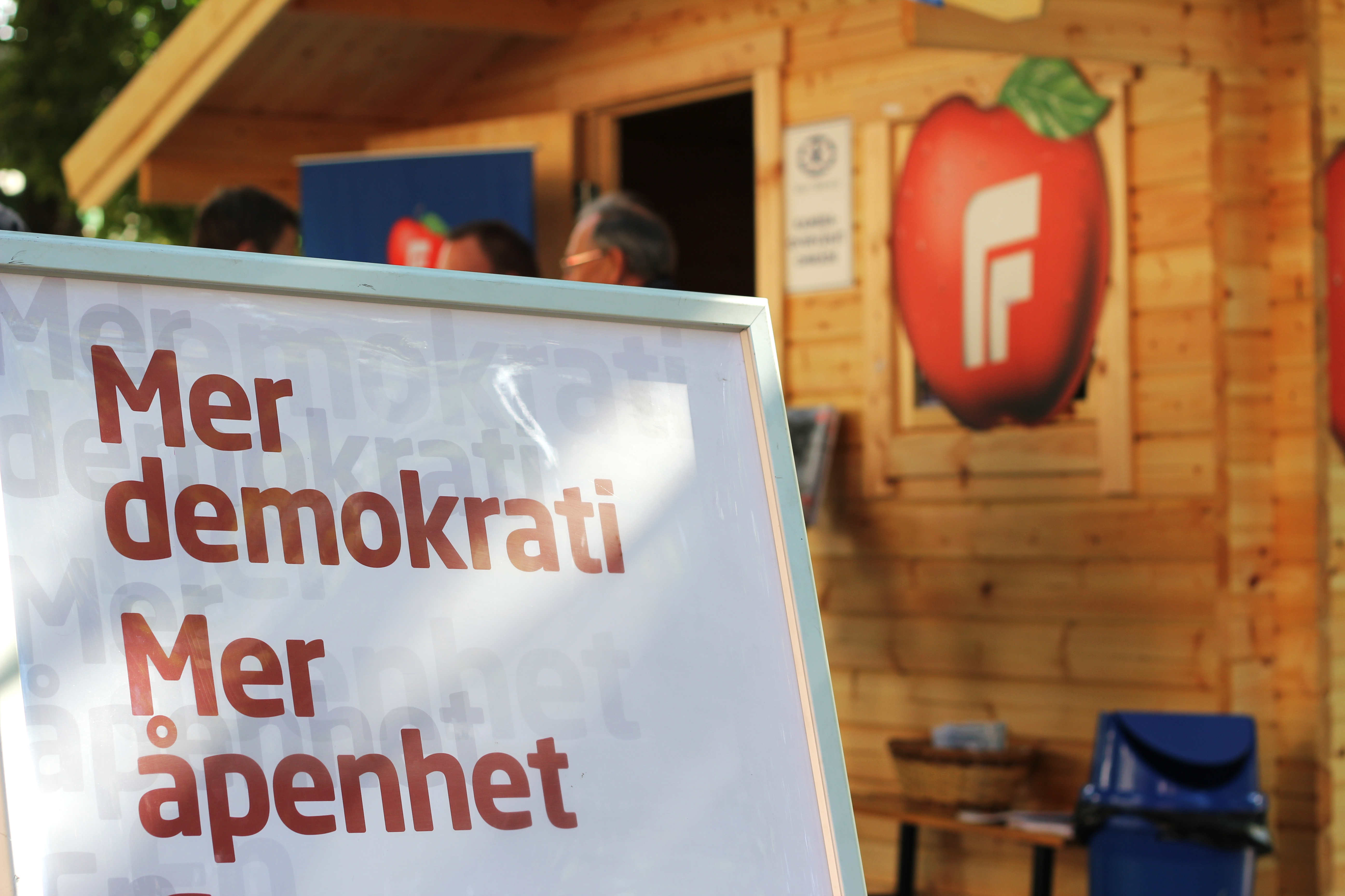 The Norwegian Progress Party (FrP) campaign stand in Oslo 2011.